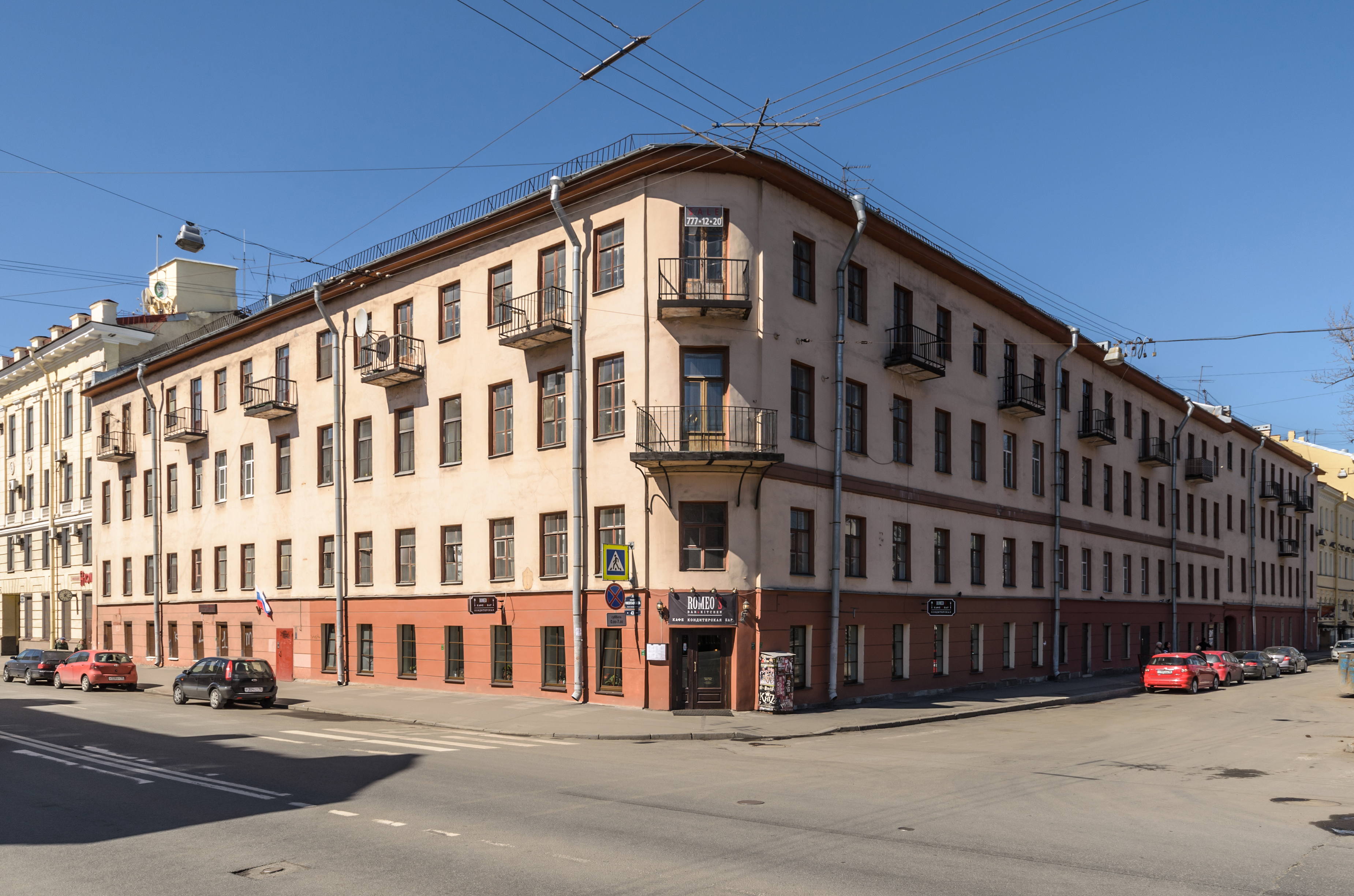 Bragin's Apartment House in Saint Petersburg